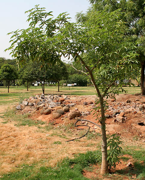 Adansonia digitata - Baobab Tree, Dead-rat tree, Monkey-bread tree, Upside-down tree or Gorakha Chinch in Sanjeevaiah Park, Hyderabad, India.